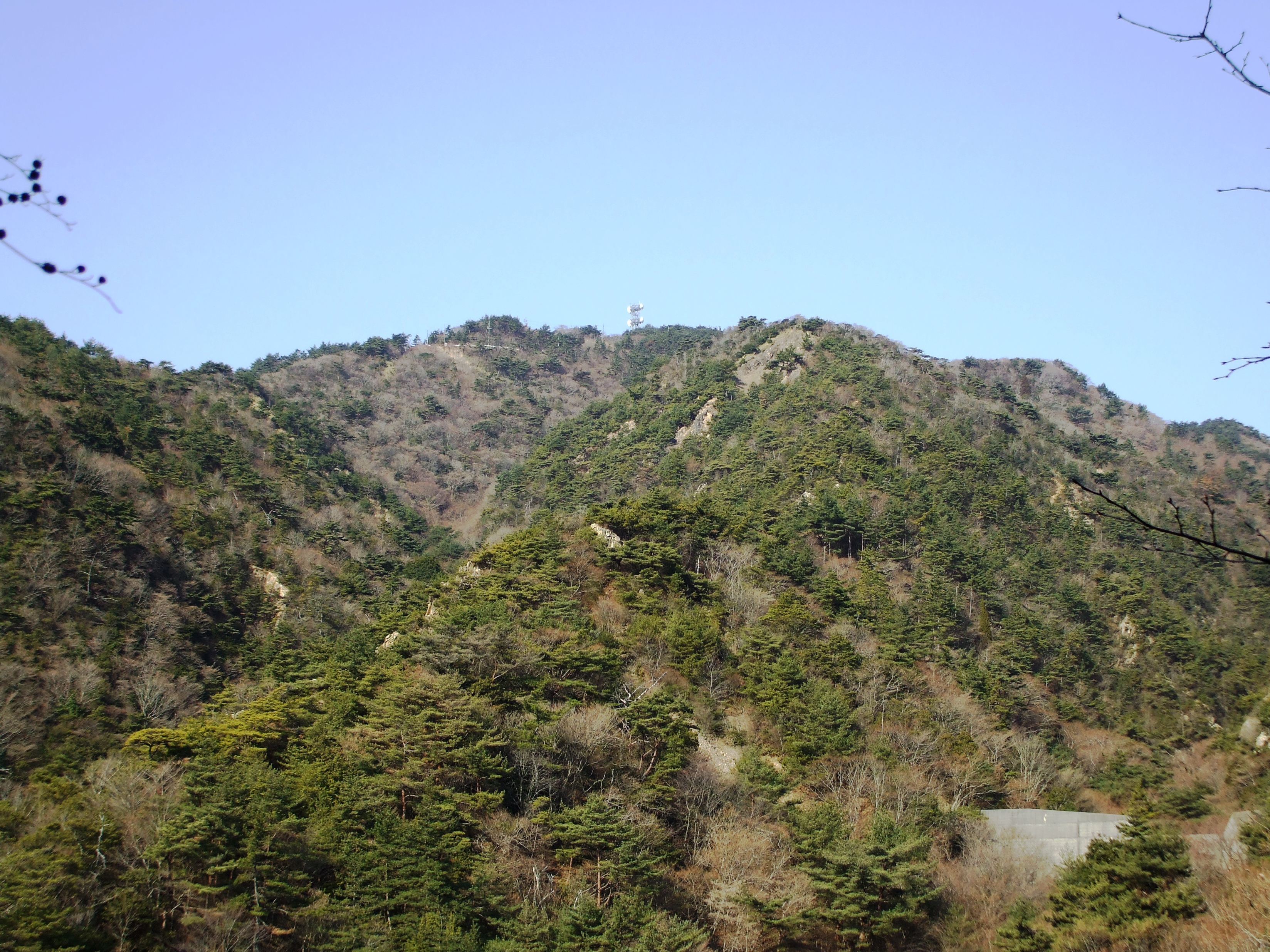 Mount Rokkō Saikohō of Rokkō Mountains, Kobe, Hyōgo, Japan. From Mount Jyatani Kitayama.